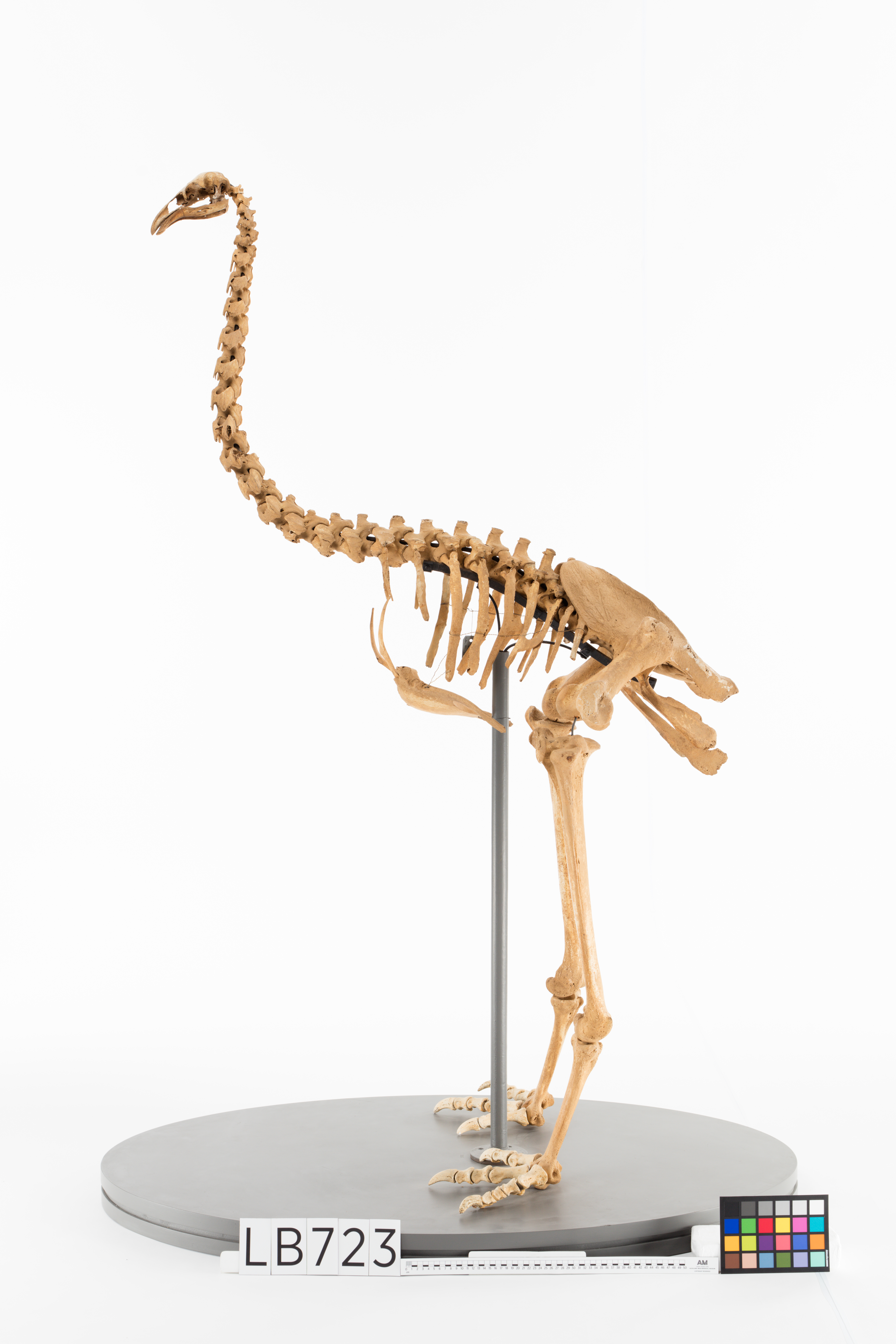 Dinornis robustus, Takaka, Nelson district: fossil bones